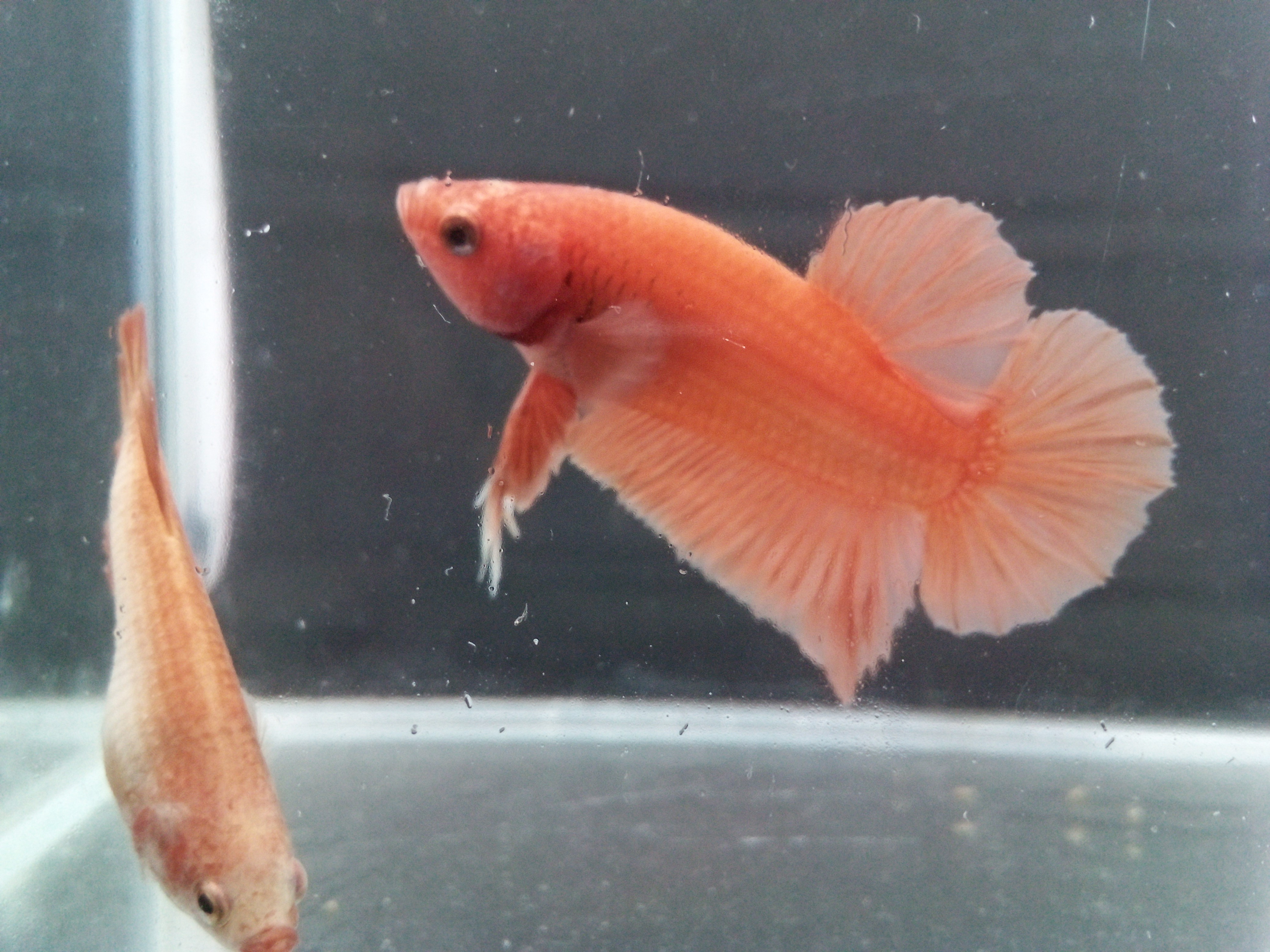 Super Orange Betta PKHM